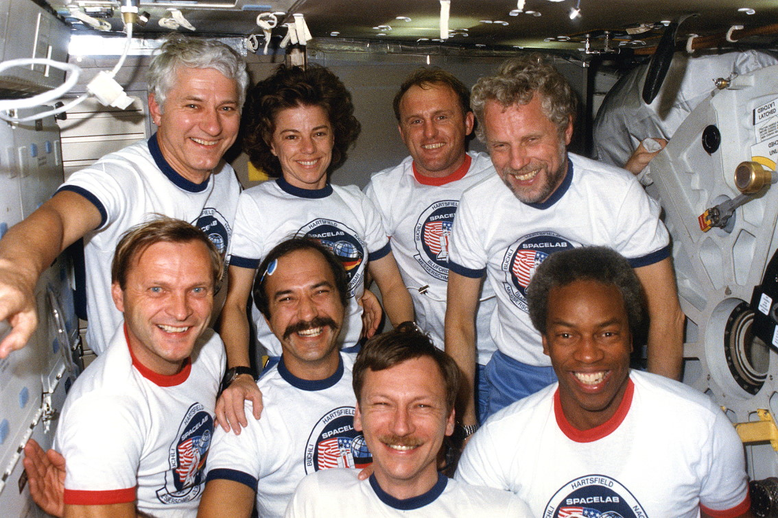 STS 61-A crew portrait onboard Challenger on the middeck. Bottom row (l.-r.) Ernst Messerschmid, Wubbo J. Ockels, Steven R. Nagel, and Guion S. Bluford, Jr. Back row (l.-r.) Henry W. Hartsfield, Jr., Bonnie J. Dunbar, James F. Buchli and Reinhard Furrer. The collar colors indicate blue or red shifts. Image ID: STS61A-117-019